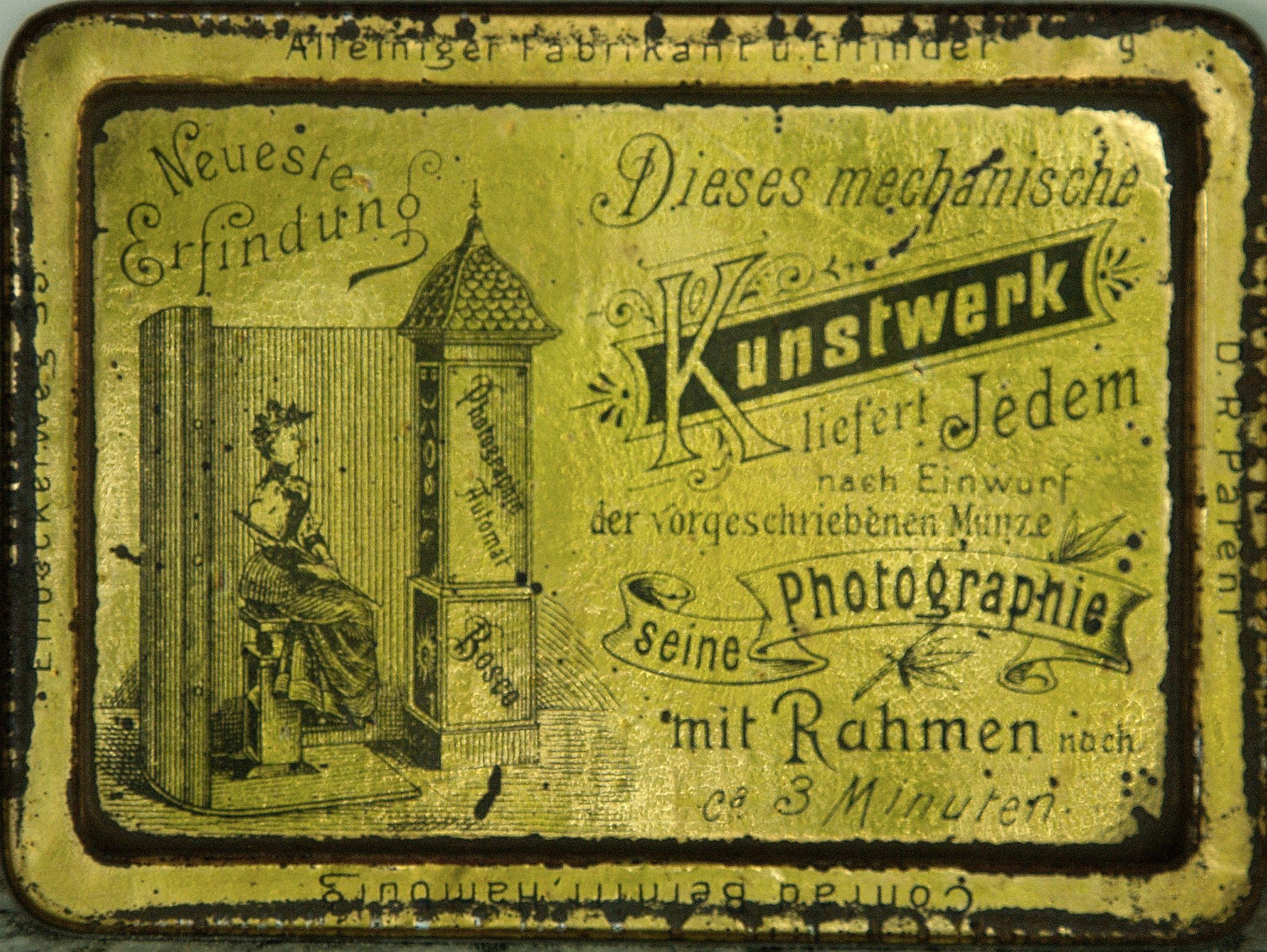 Eine Ferrotypie aus einem Bosco-Automaten, Rückseite. Example of a ferrotype produced by a "Bosco" machine (back side).